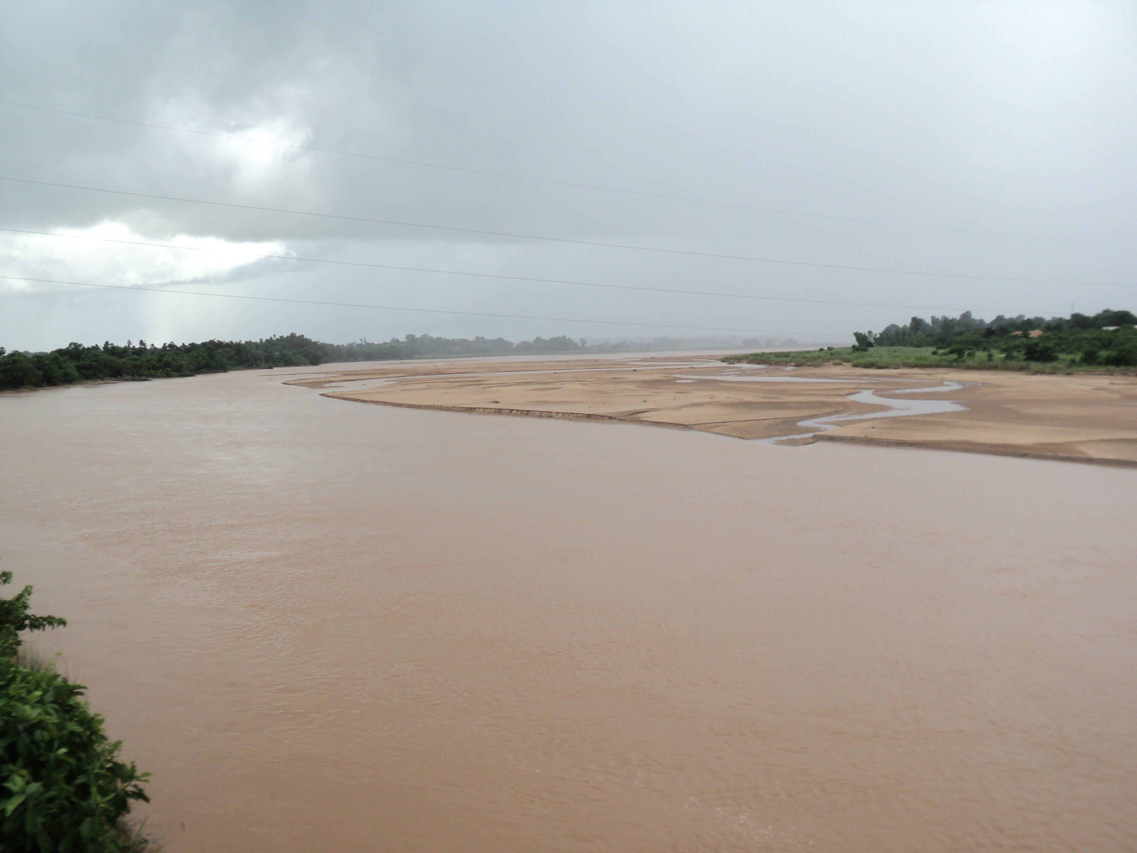 River Eluru